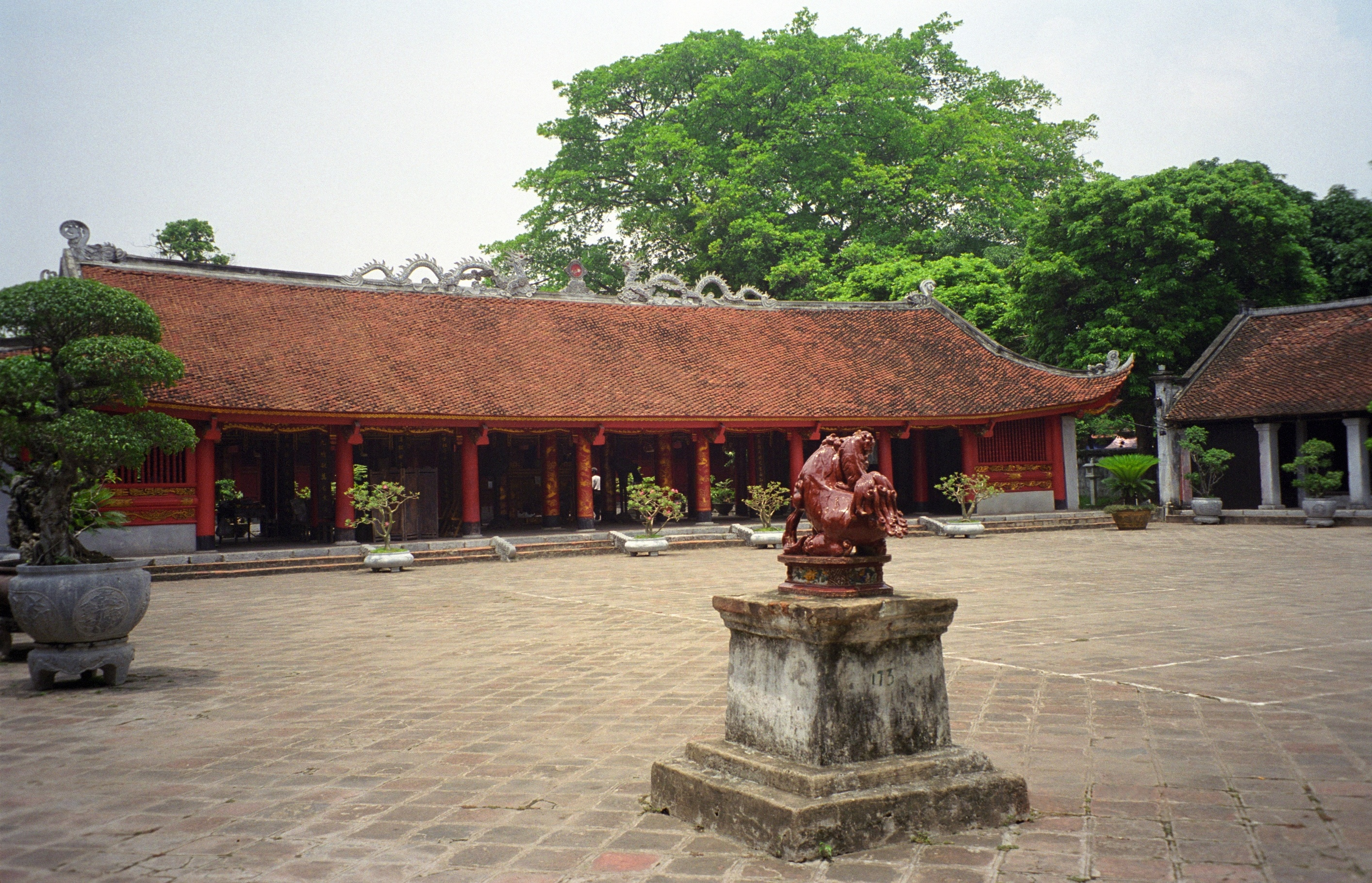 Temple of Literature, Hanoi.